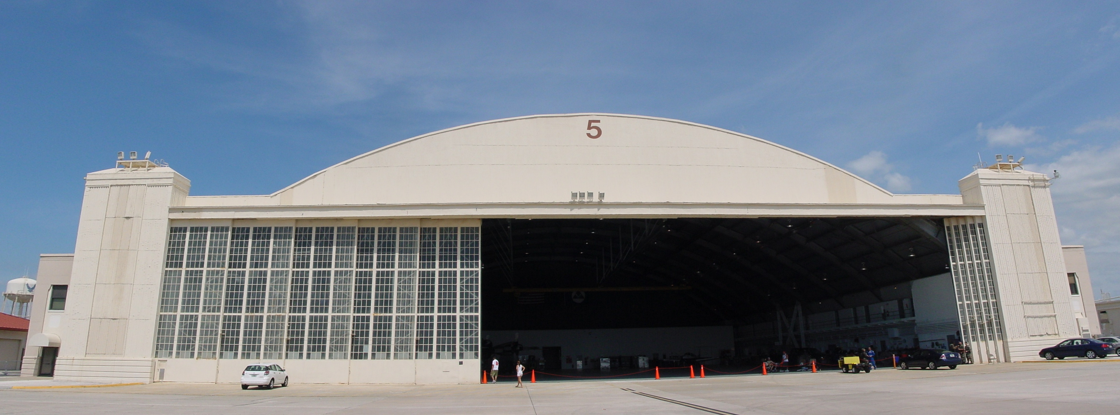 This photograph is of Hangar 5 at MacDill AFB, home of the NOAA's Aircraft Operations Center. This photograph was taken at MacDill AirFest 2007.